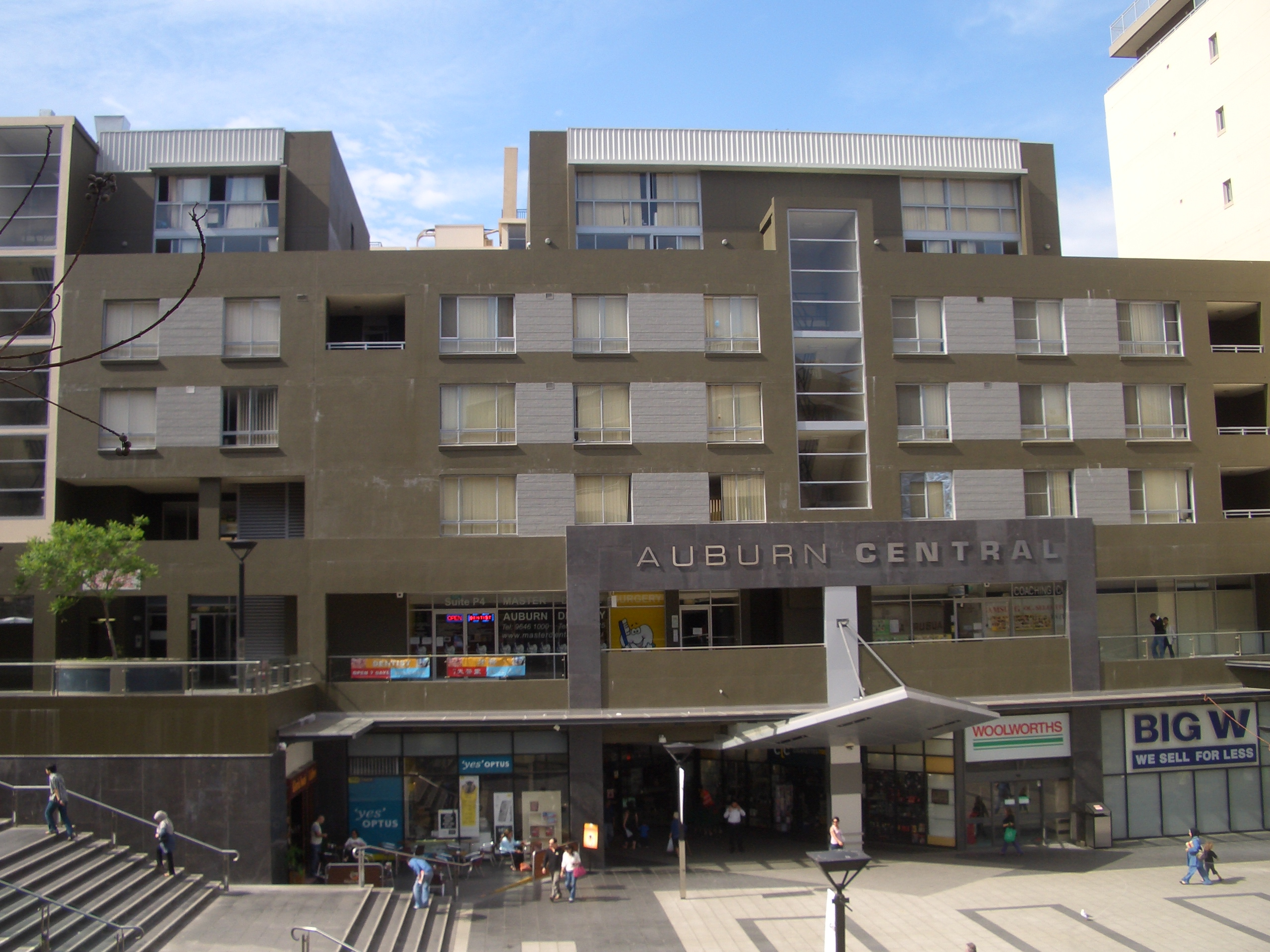 Auburn Central, Queen Street mall